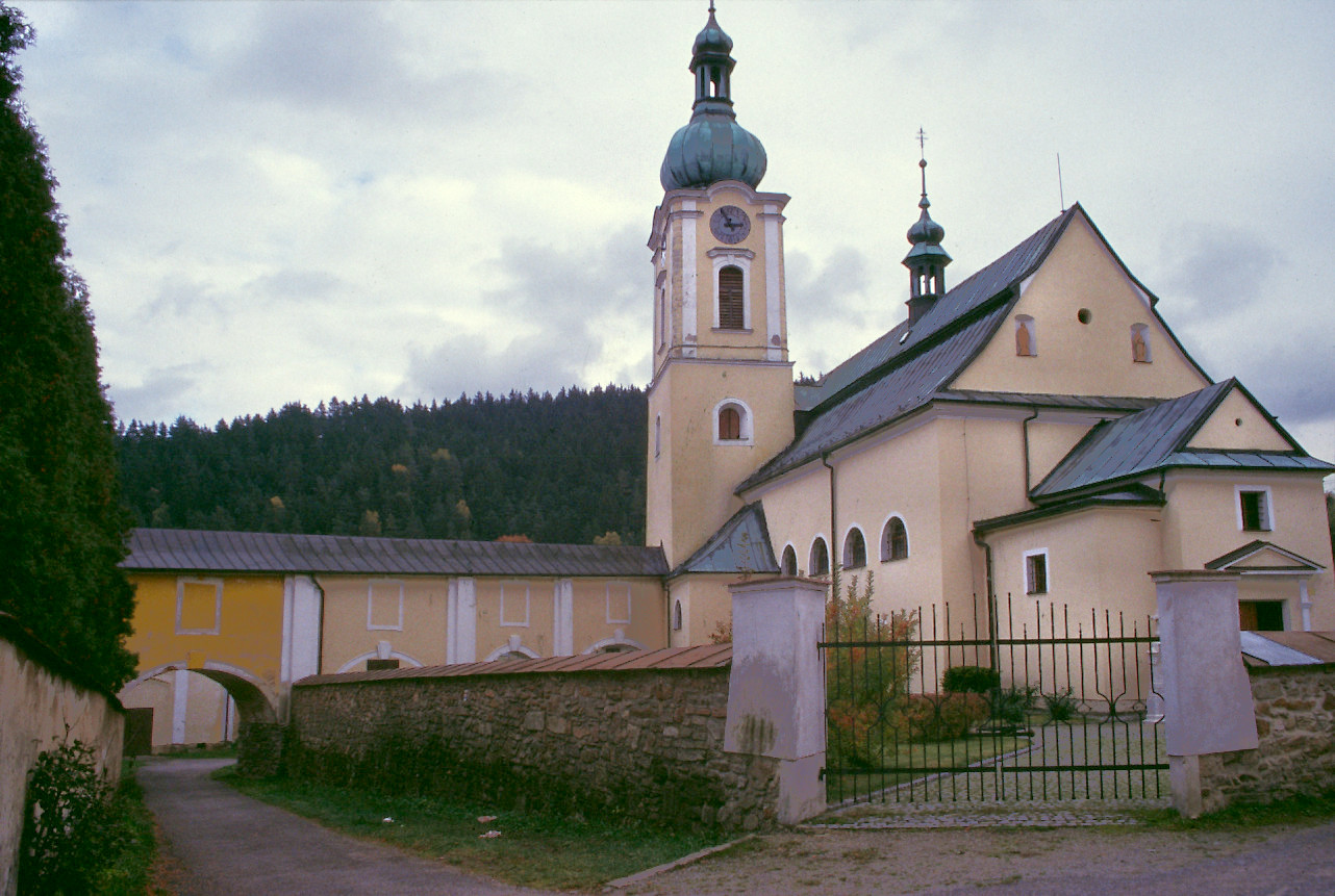 castle church of Jimramov, region of Vysočina, Czech Republic